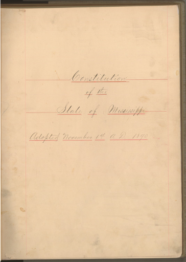 Constitution of the State of Mississippi (1890), cover